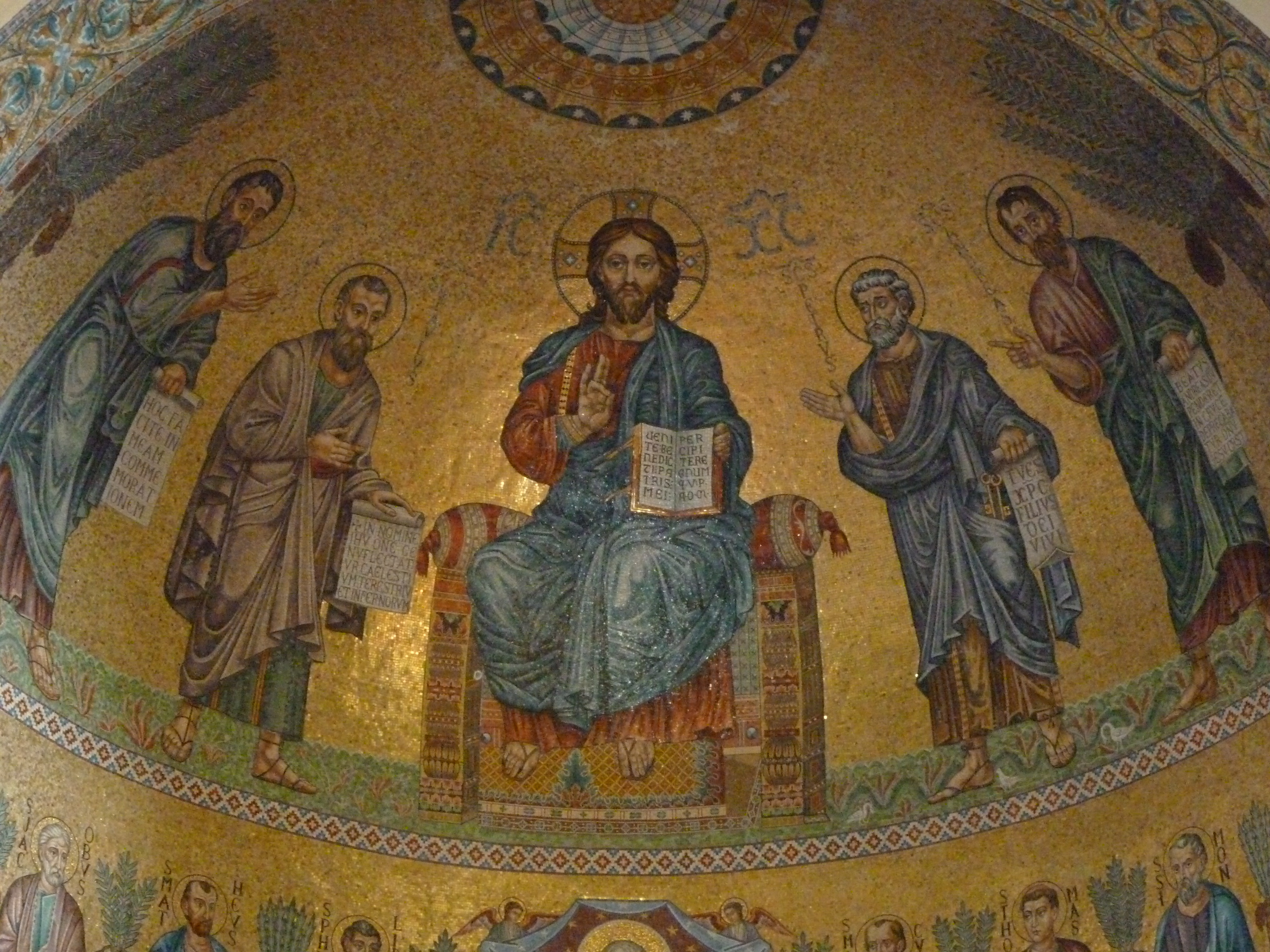 Apse of the church of San Remigio, Fara San Martino, province of Chieti, Abruzzo, Italy.